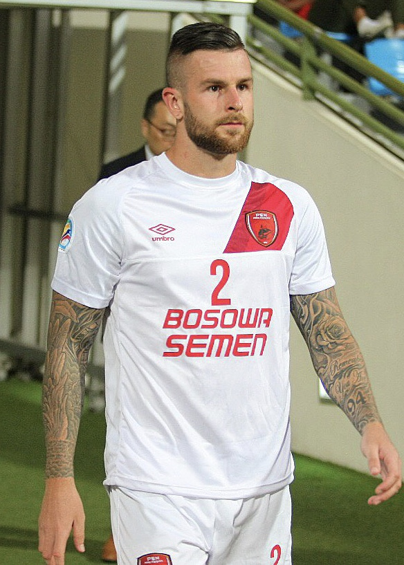 Profile picture of Aaron Evans wearing playing strip of professional football club PSM Makassar who he is contracted to for the 2019 Liga 1 season.